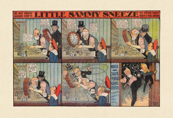 Episode of American cartoonist Winsor McCay's newspaper comic strip Little Sammy Sneeze for 1904-09-18